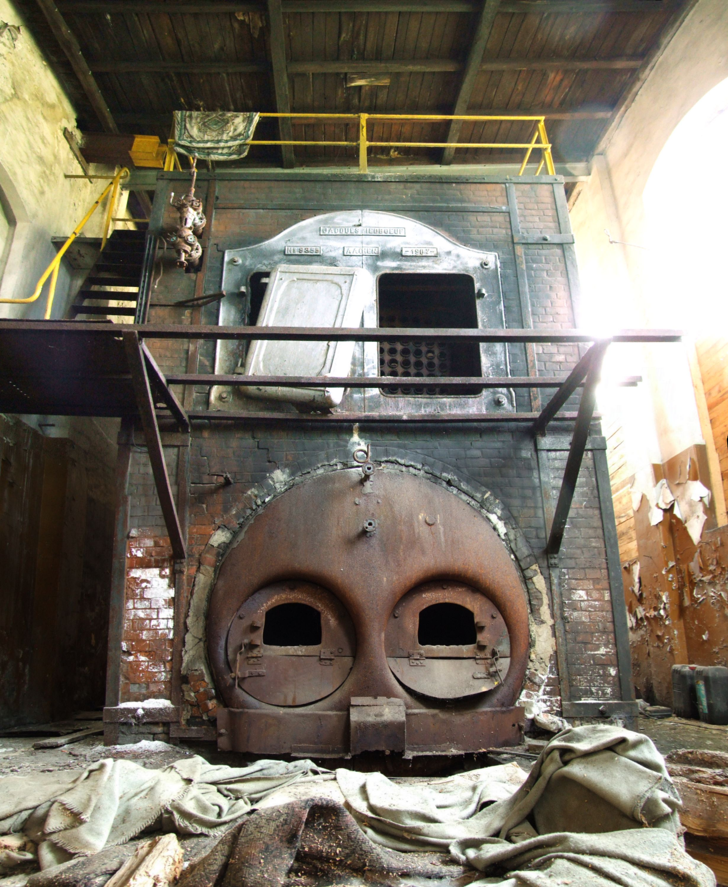 Industrial Furnace in the 1907 paper factory in Krępa, Poland. The furnace is now unused. Information engraved on its doors says "jacques piedboeuf / no. 9355 / Aachen / -1907-"